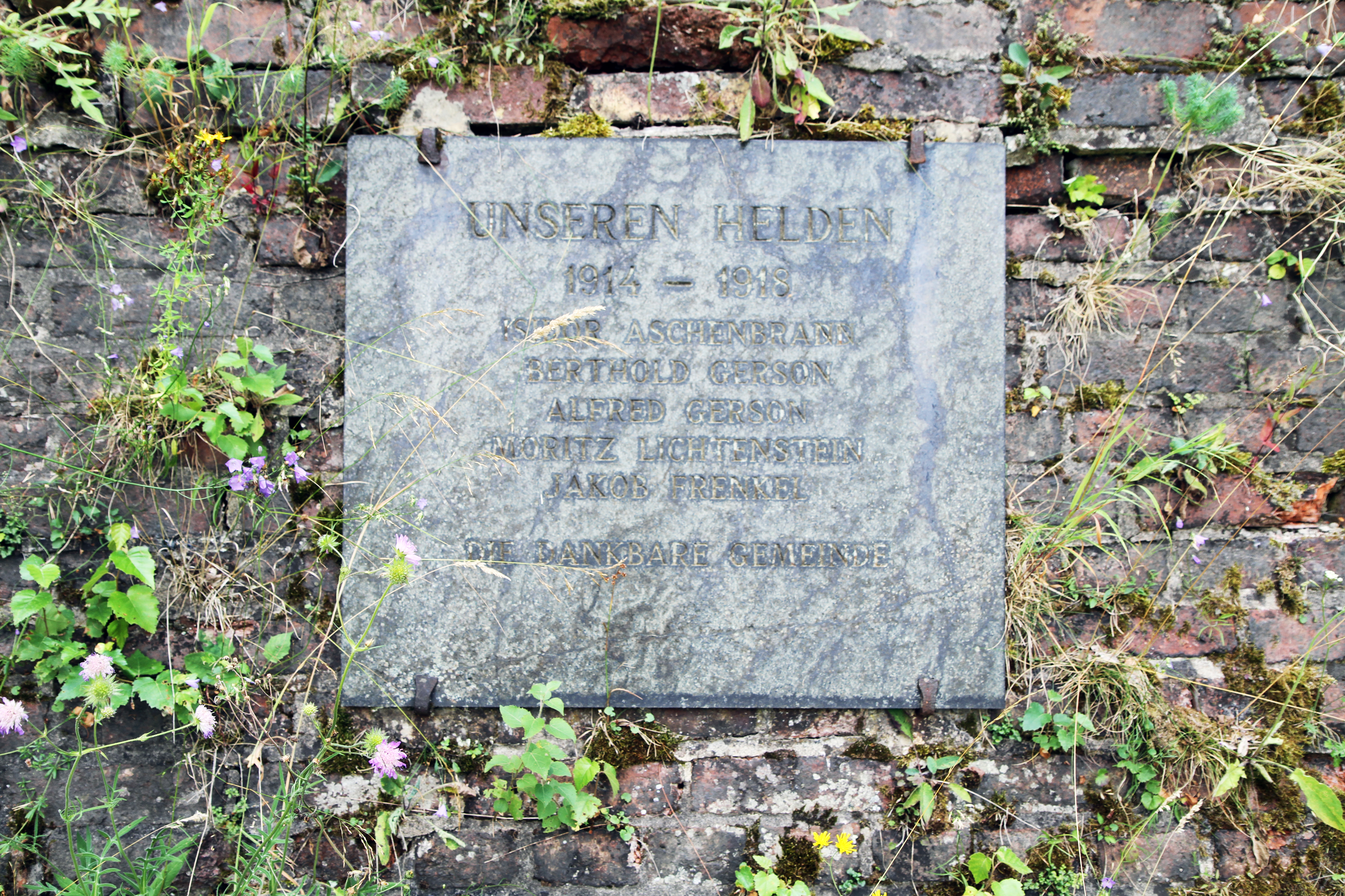 Jewish cemetery Oberwesel, Rhineland-Palatinate, Germany